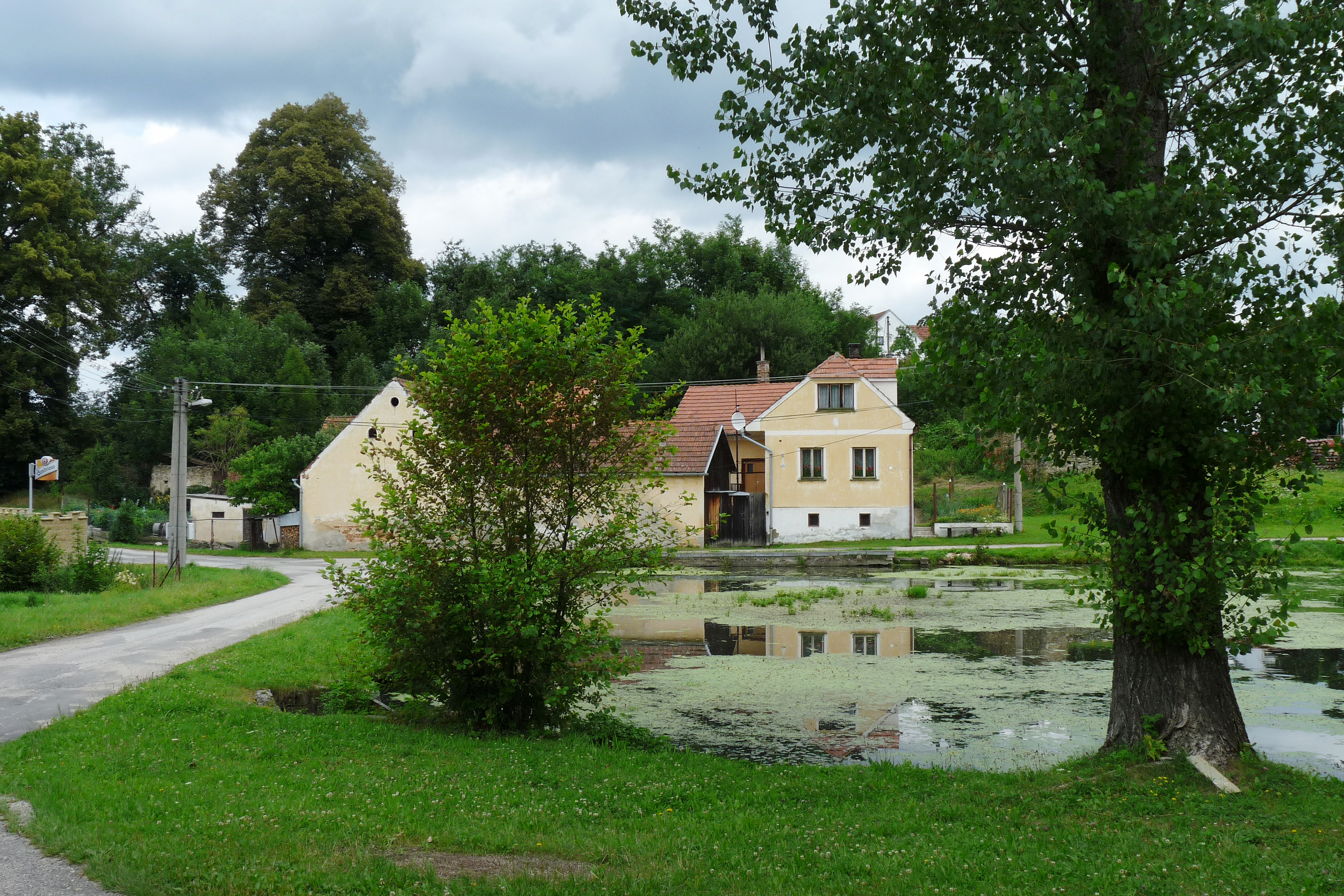 Pond in the village green of Rankov, a small village in České Budějovice District, Czech Republic with house No 24 at the back.